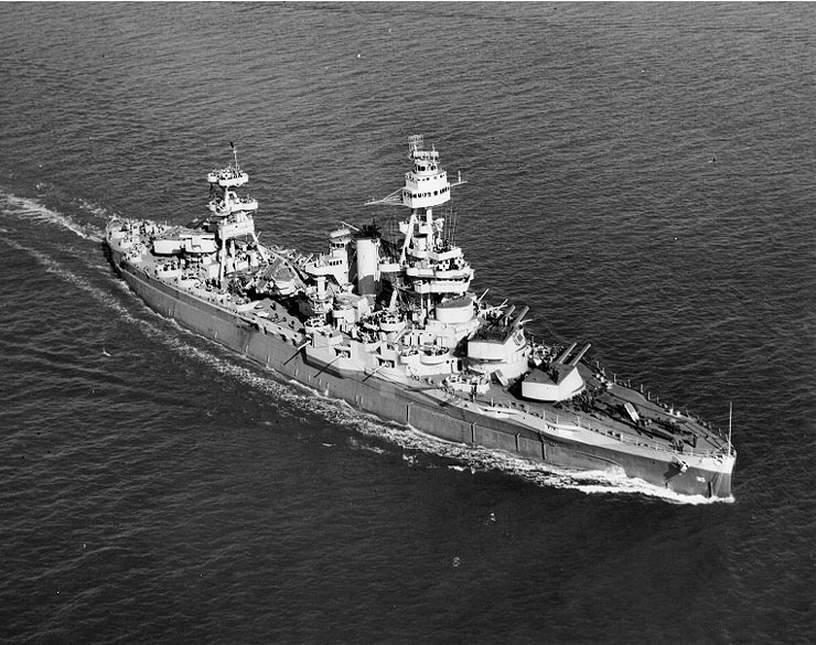 USS Texas (BB-35). Underway off Norfolk, Virginia, 15 March 1943, with her main battery gun turrets trained to port.